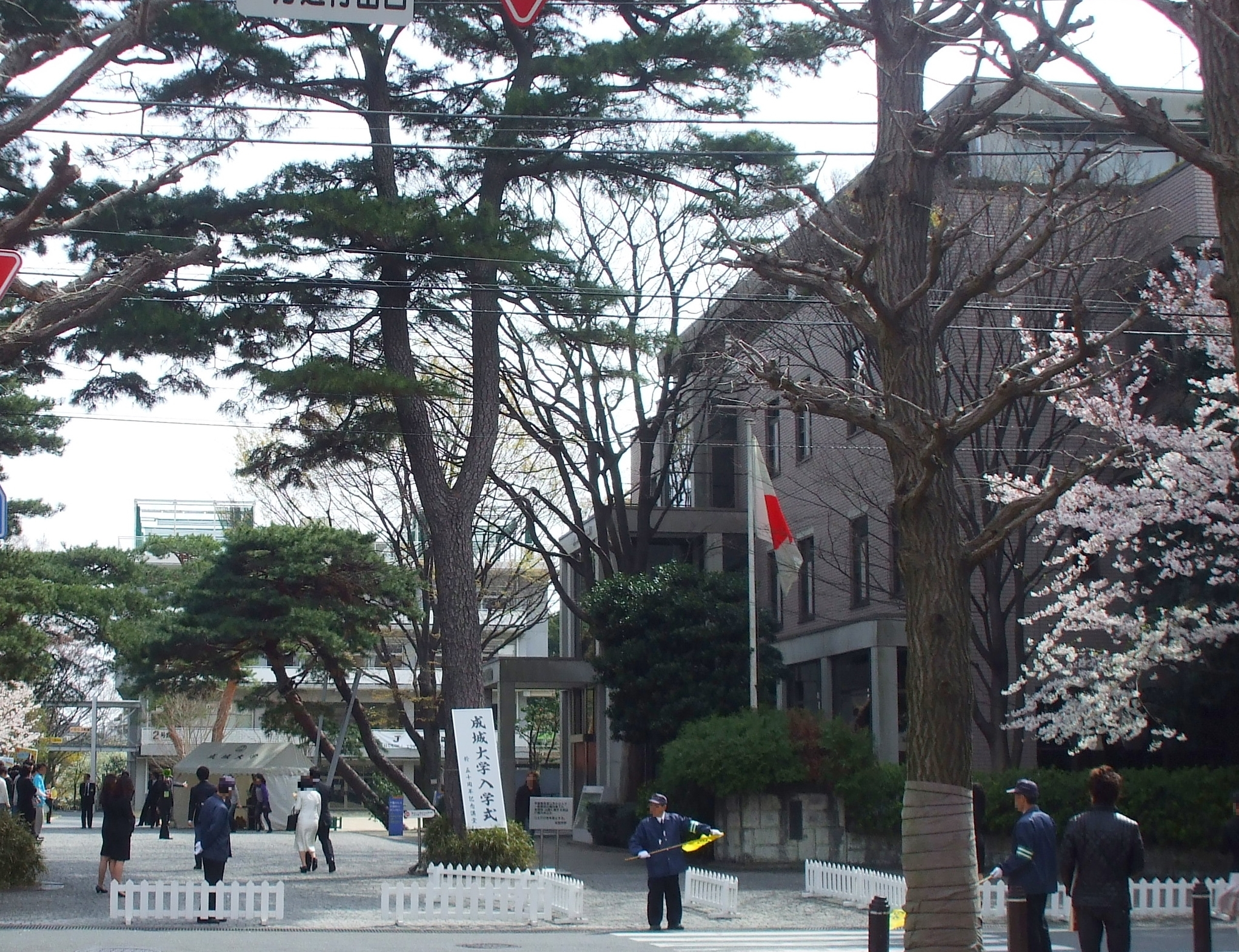 Seijo University located in Setagaya-ku, Tokyo, Japan.